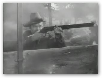 Cropped screenshot of James Stewart from the trailer for the film Winchester '73